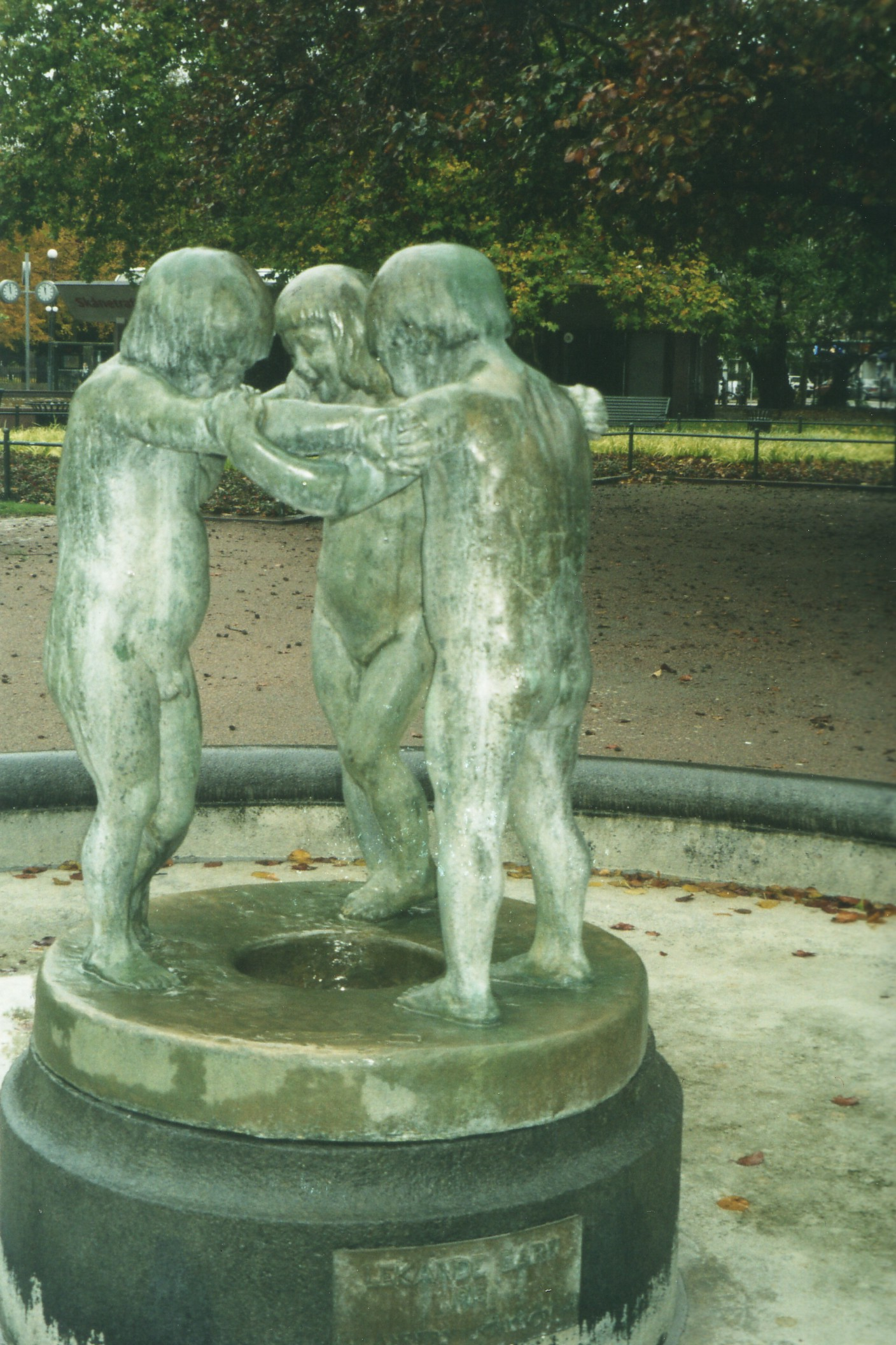 The fountain "Playing children", 1914, in Malmö at Gustav Adolfs torg by sculptor Anders Jönsson (1883-1965). As model for the girl in the fountain was Bianca Wallin (1909-2006), then 5 years old, daughter of the artist David Wallin (1876-1957).